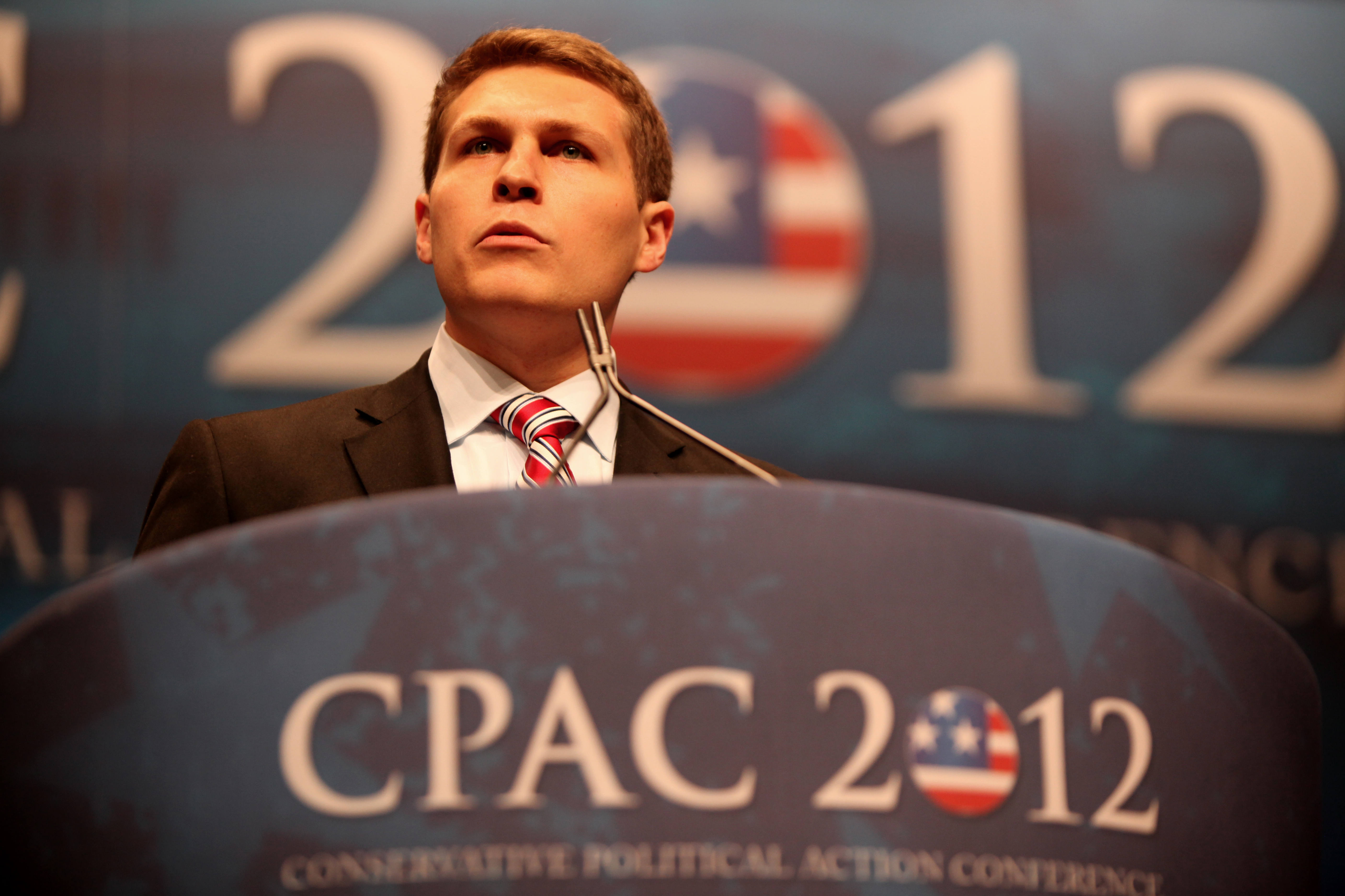 Alexander McCobin speaking at the 2012 CPAC in Washington, DC